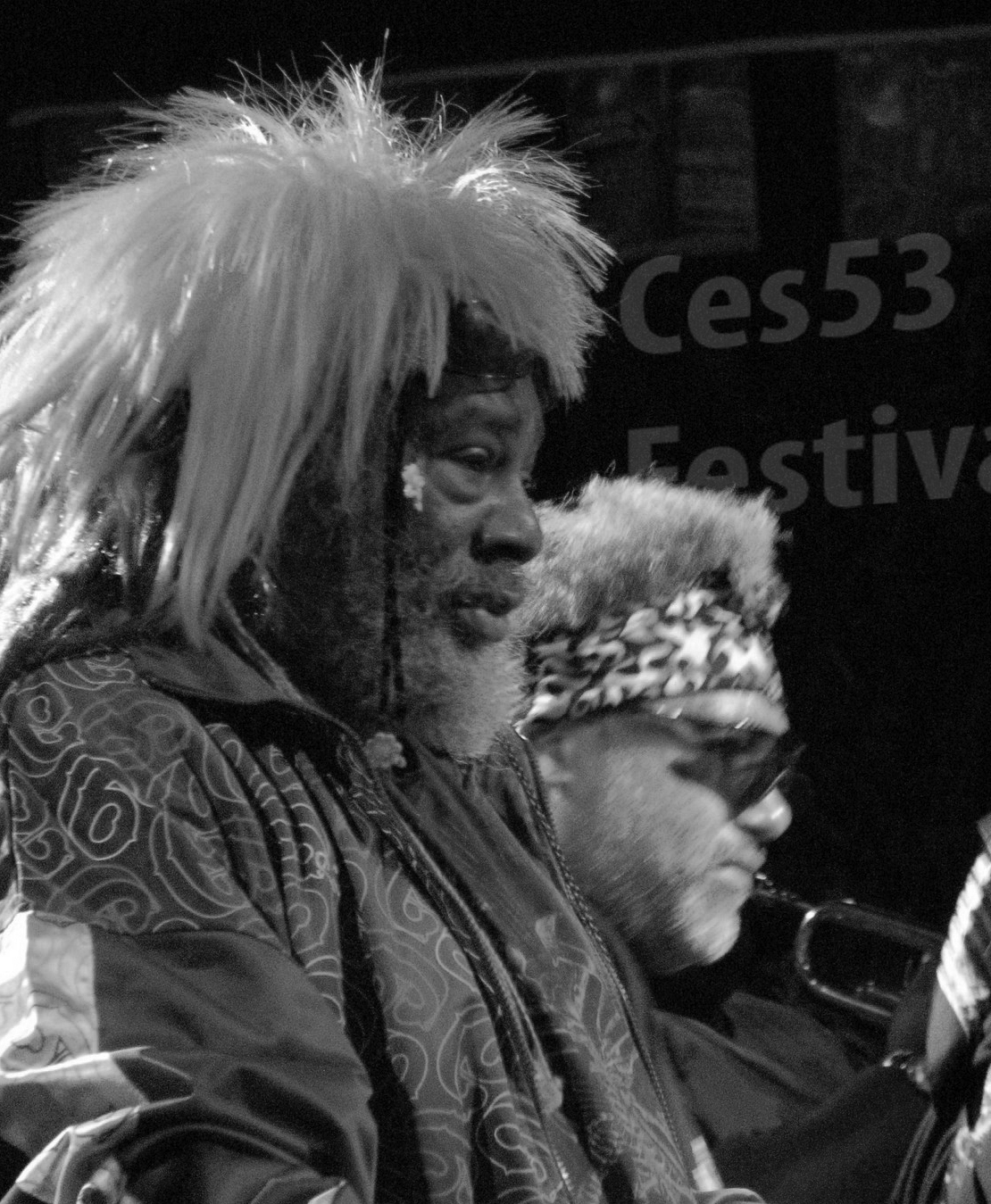 George Clinton live.